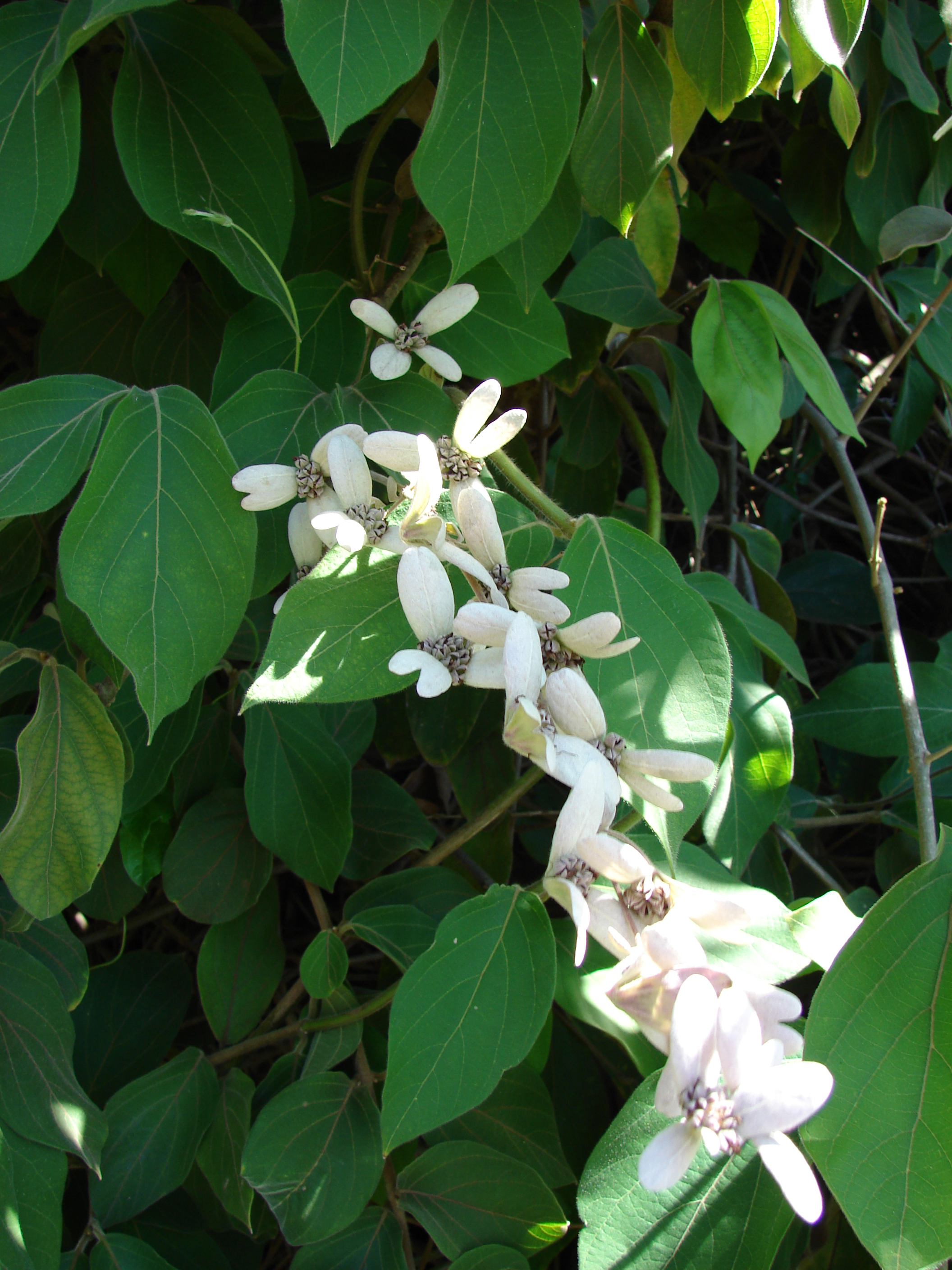 Congea tomentosa (inflorescences and leaves). Location: Maui, Enchanting Floral Gardens of Kula